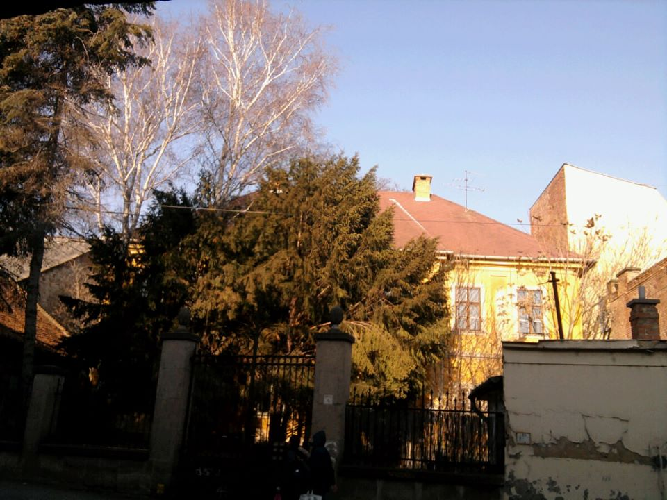 House of Ferenc Markhot in Eger, Hungary This is a photo of a monument in Hungary, Identifier: 1938